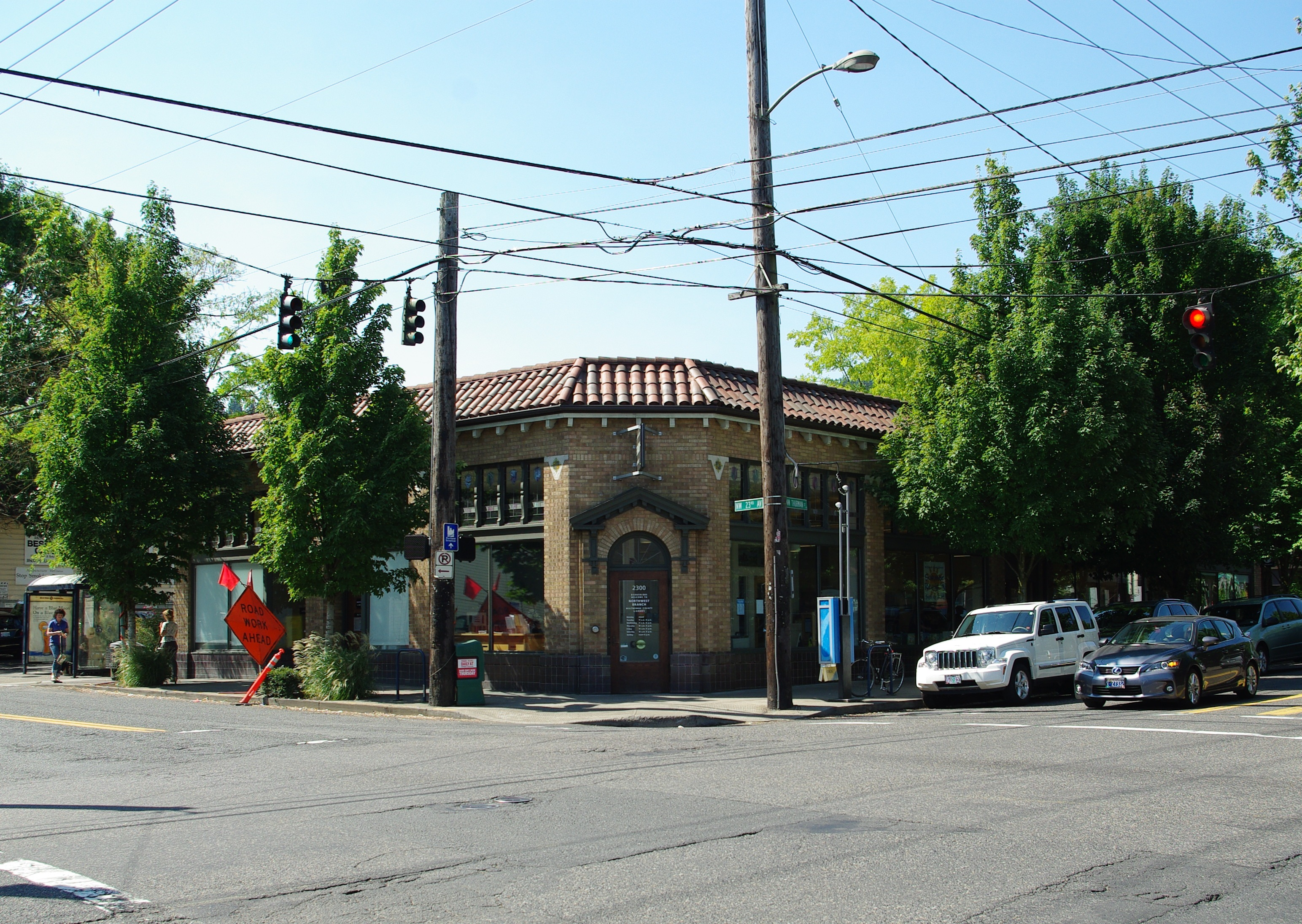 Northwest branch of the Multnomah County Library system in Portland, Oregon.